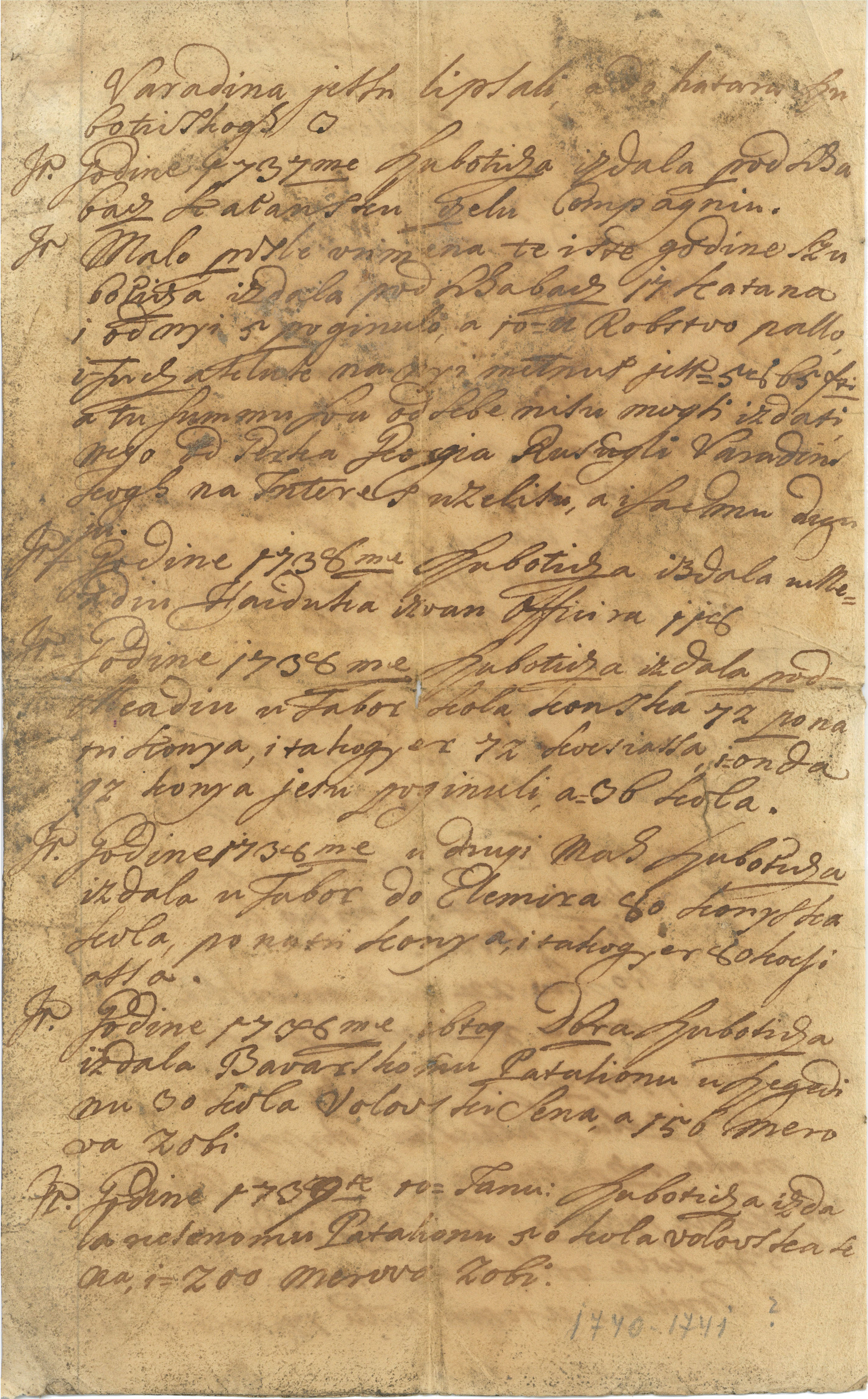 One of the oldest documents from Historical Archives of Subotica written in Ikavian, a non-standard variant of Serbo-Croatian language. Dated roughly 1740-1741 (IASu F.179 II 34 Fol. 6B).